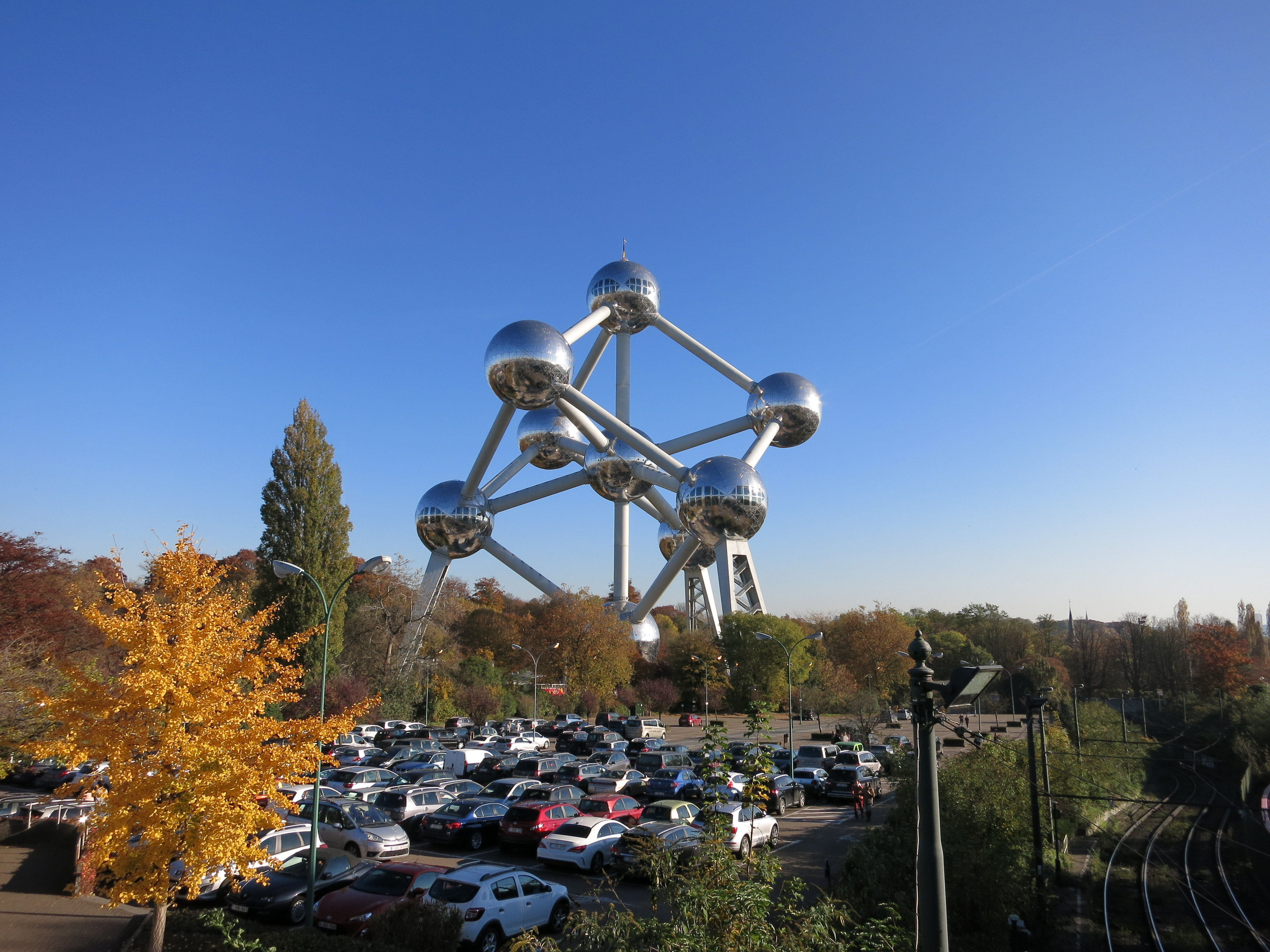 The Atomium viewed from the walkway leading from Heysel station